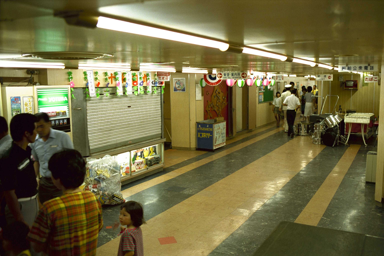 MS TOWADA MARU2 Entrance hall Picture's right side is ship's Port. There was a stairway to the Wagon deck platform in a door aft side of a relief of Hokkaido map.